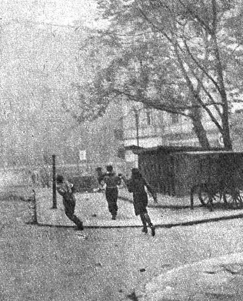 Warsaw Uprising: Fights on Napoleon Square in first days of the insurgence/